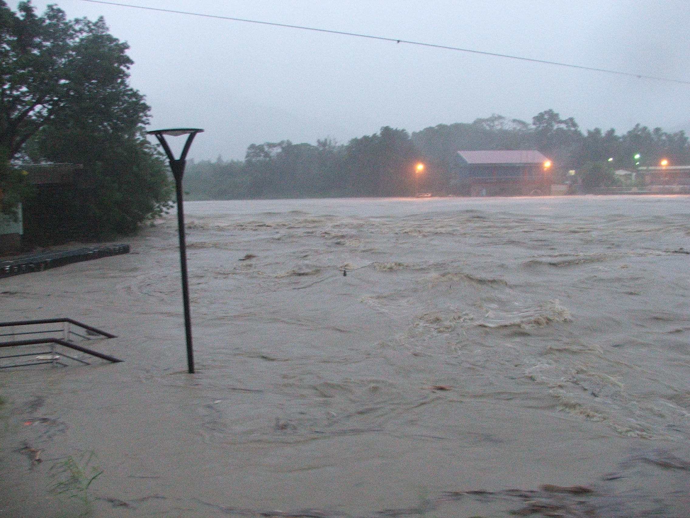 Xindian Creek at the peak of the flood caused by Typhoon Jangmi on September 28, 2008.